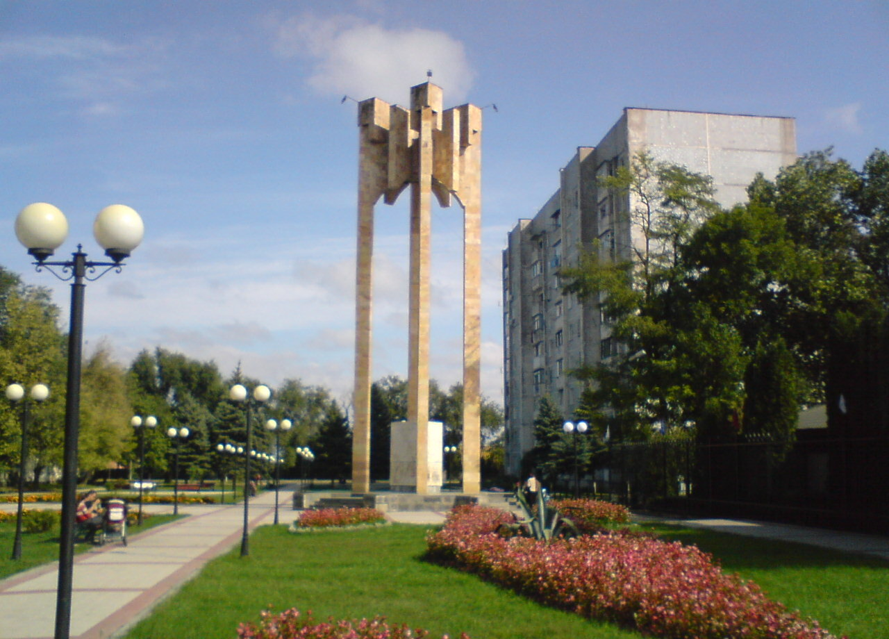 Treaty of Georgievsk Monument in Georgiyevsk, Stavropol Krai, Russia